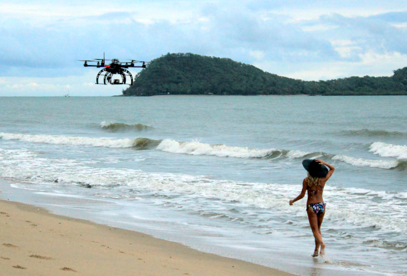 HexaKopter above beach